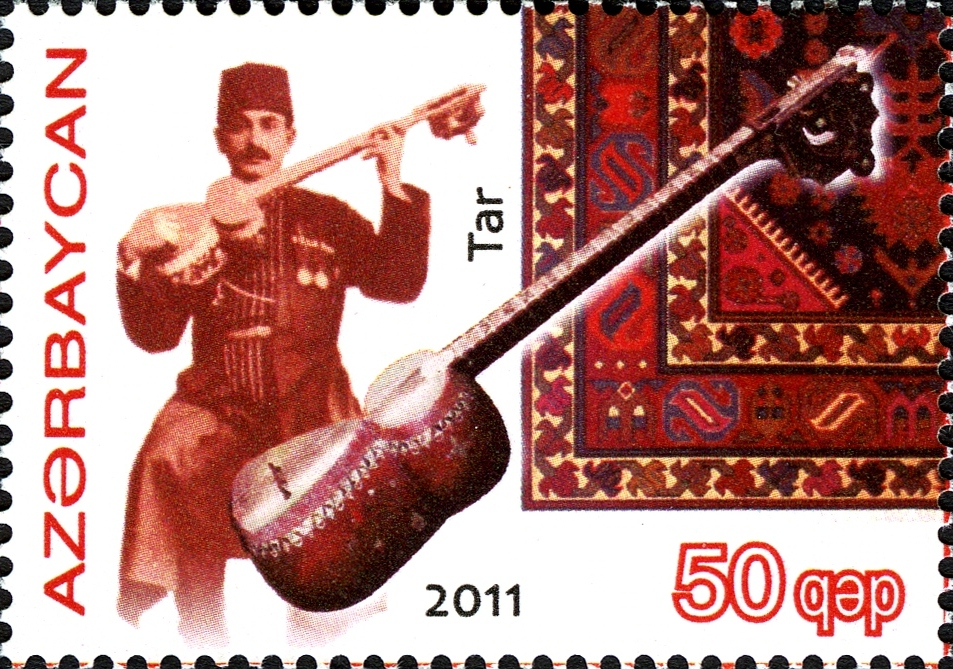 Tar